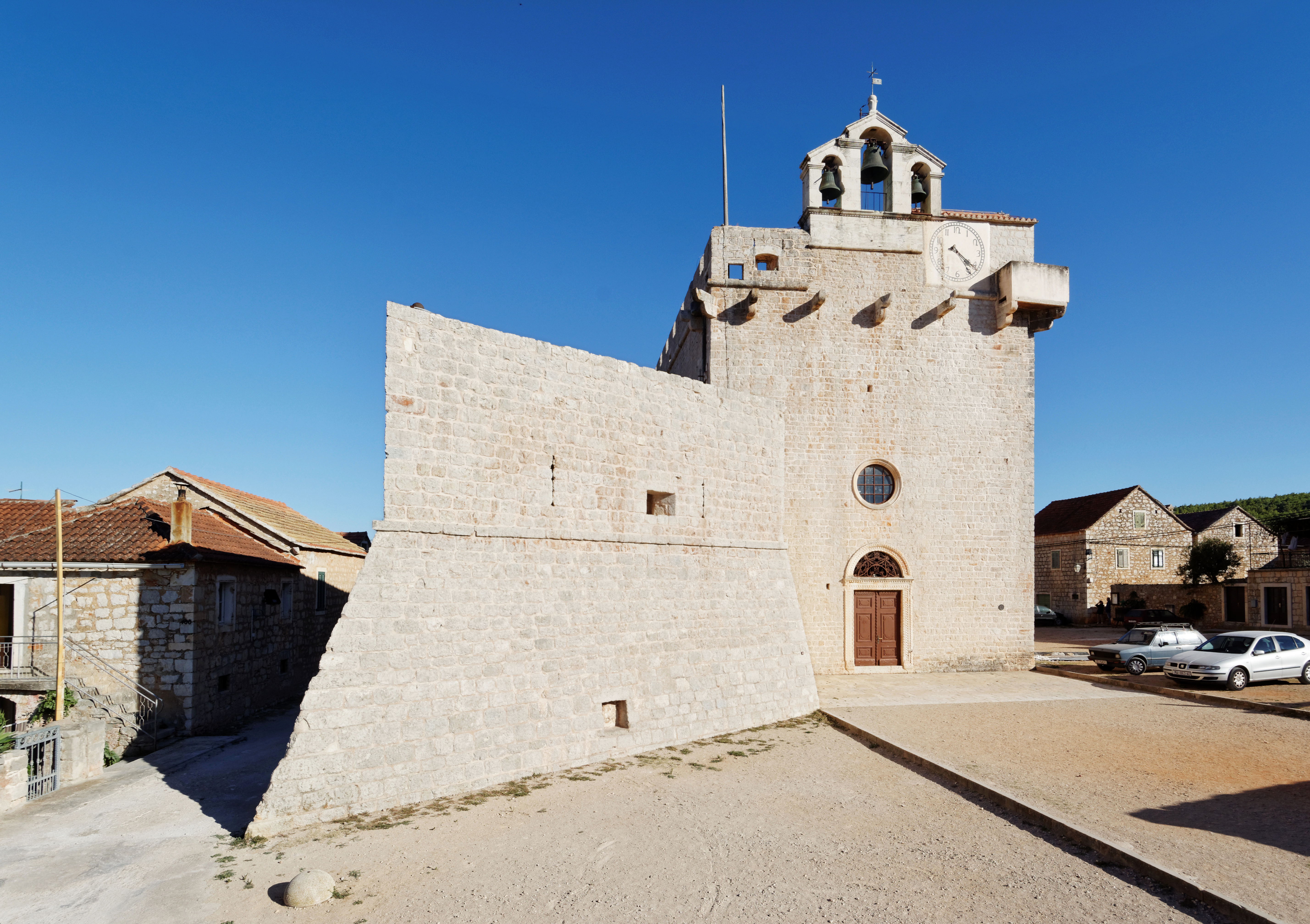 The fortress church of St. Mary of Mercy in Vrboska, Hvar island, Croatia.